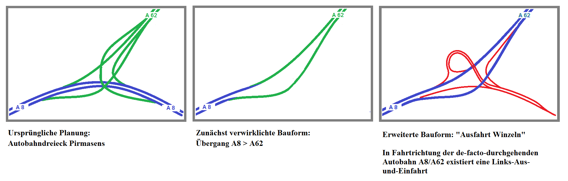 How the motorway junction "Pirmasens" was originally planned and finally constructed. Nowadays exit "Winzeln".